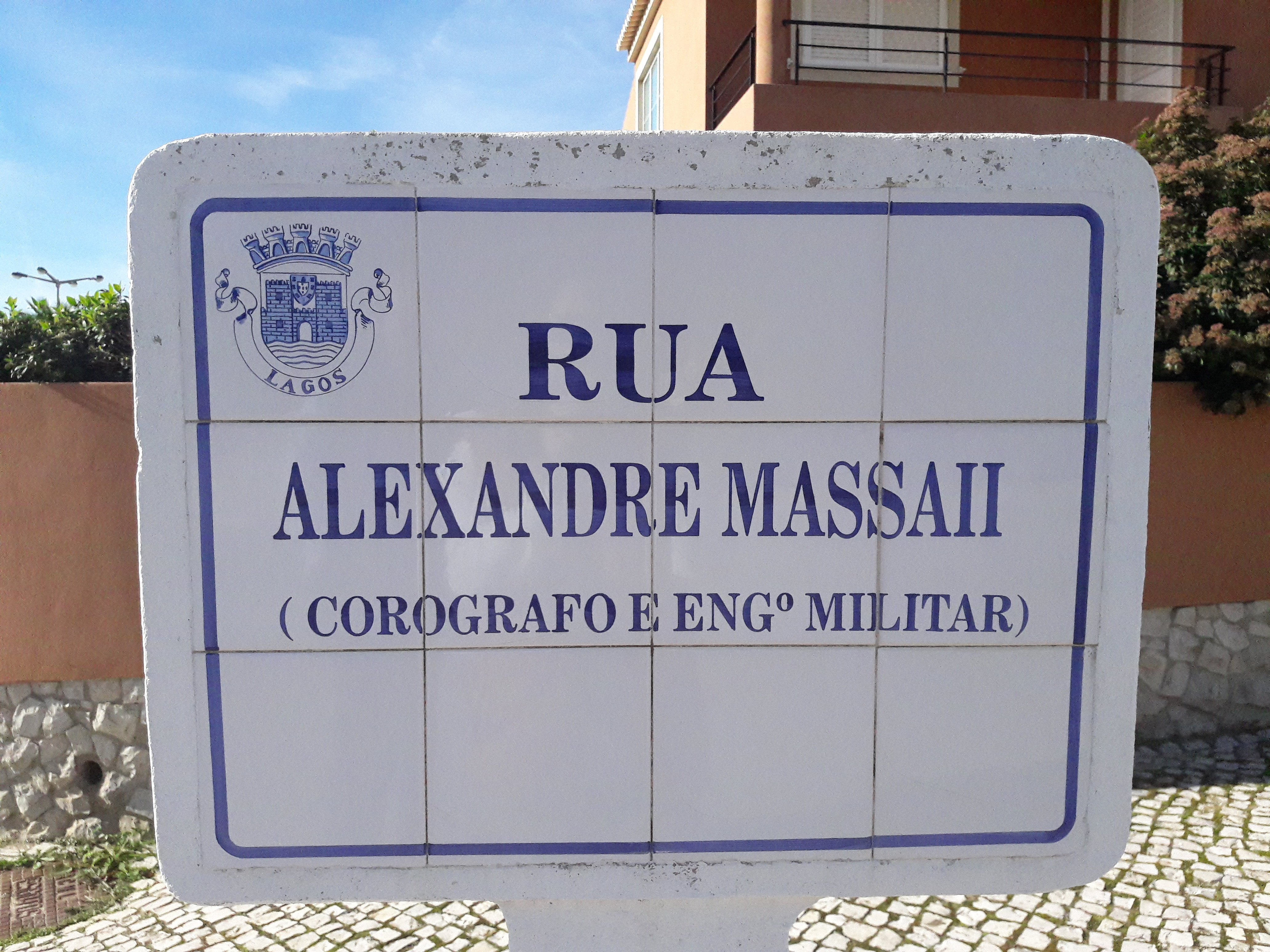 Street sign of Rua Alexandre Massaii, in the city of Lagos, in southern Portugal.